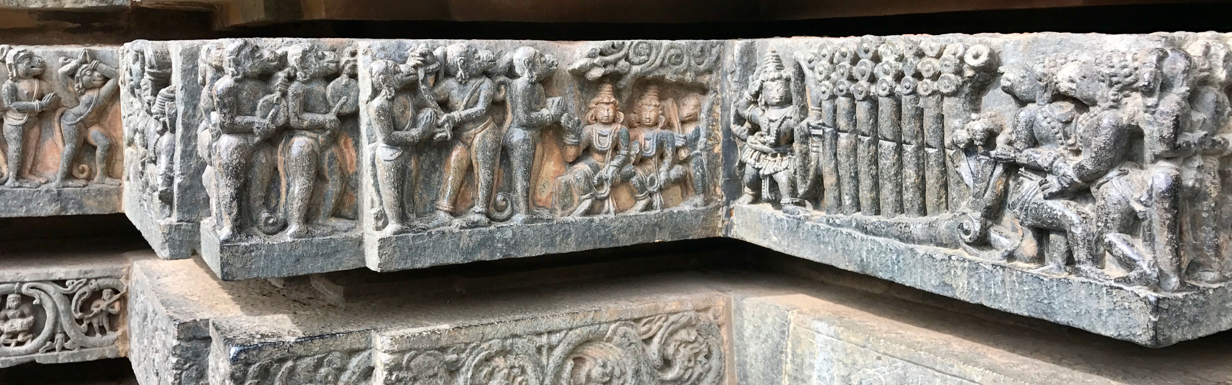 The Hoysaleswara Hindu temple is dedicated to Shiva. It was built in the first half of 12th century in Halebid (previously called Dwarasamudra, Hale bidu means "old capital"), sponsored by King Vishnuvardhana of the Hoysala Empire. During the early 14th century, Halebidu temple site along with others were sacked, looted and much artwork damaged (particularly nose/face, hands) by Muslim invaders from northern India (Khilji dynasty and Tughlaq dynasty of Delhi Sultanate). The temple belongs to the Shaivism tradition of Hinduism, yet reverentially presents its Vaishnavism and Shaktism tradition legends and ideas. The relief panels present legends from the Ramayana, the Mahabharata, the Puranas. Vedic deities such as Agni, Indra and Surya, various avatars of Vishnu, the Hindu goddesses such as Saraswati, Lakshmi avatars, Durga, Kali among others are presented. The carving is three dimensional where reliefs often emerge as statues with depth. Panels are continuous, with one perspective showing one part of the legend, a perpendicular perspective of the same column or wall or corner showing another part of the same legend. The carving material was soapstone.